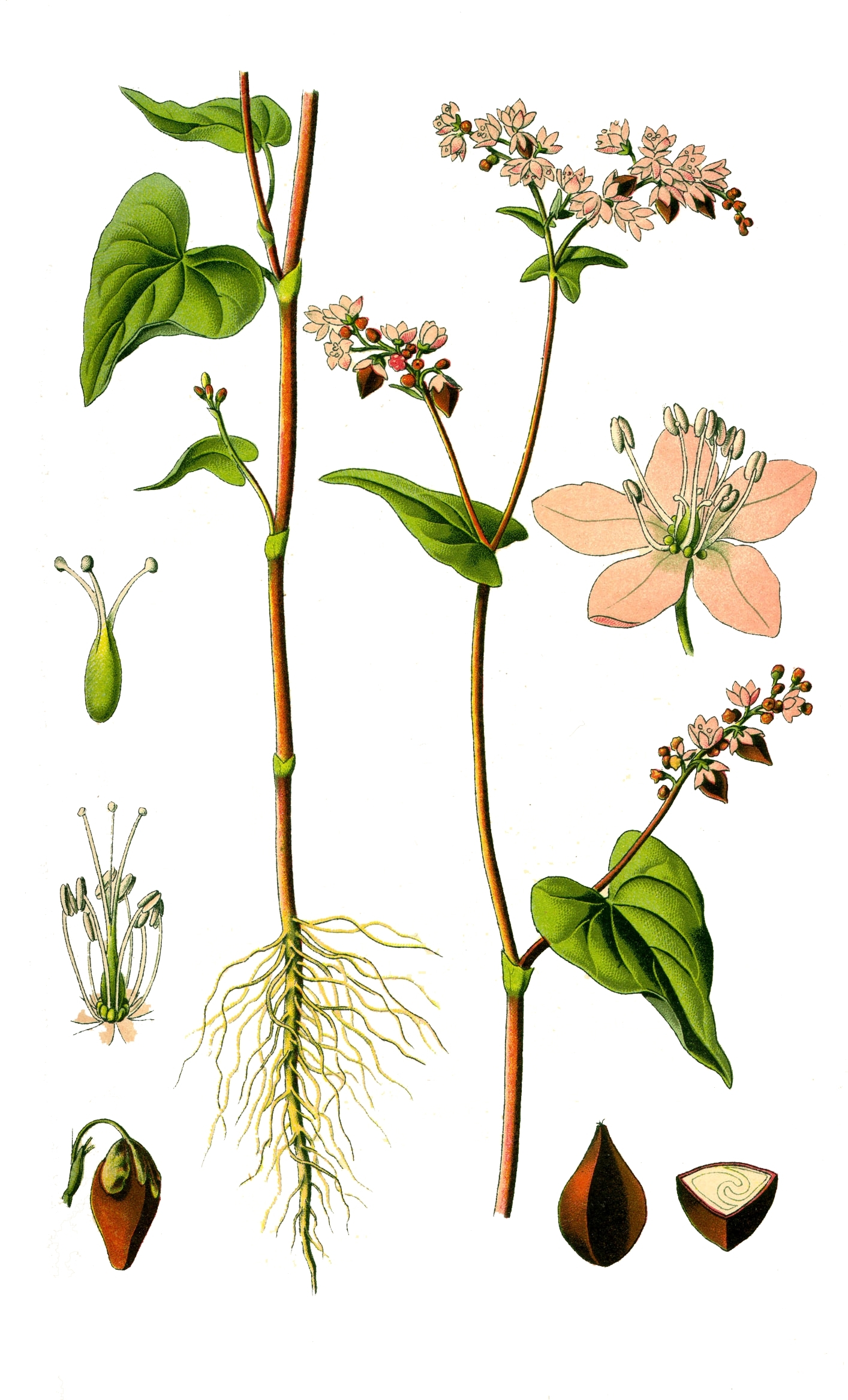 Fagopyrum esculentum Family:Polygonaceae